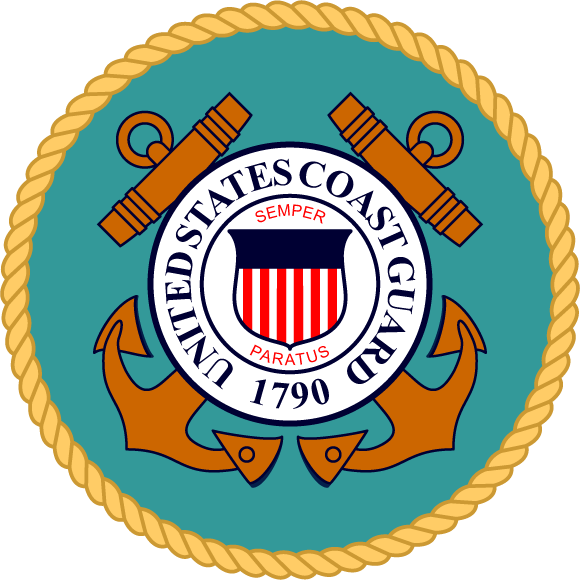 U.S. Coast GuardOfficial SealWebsafe Colors